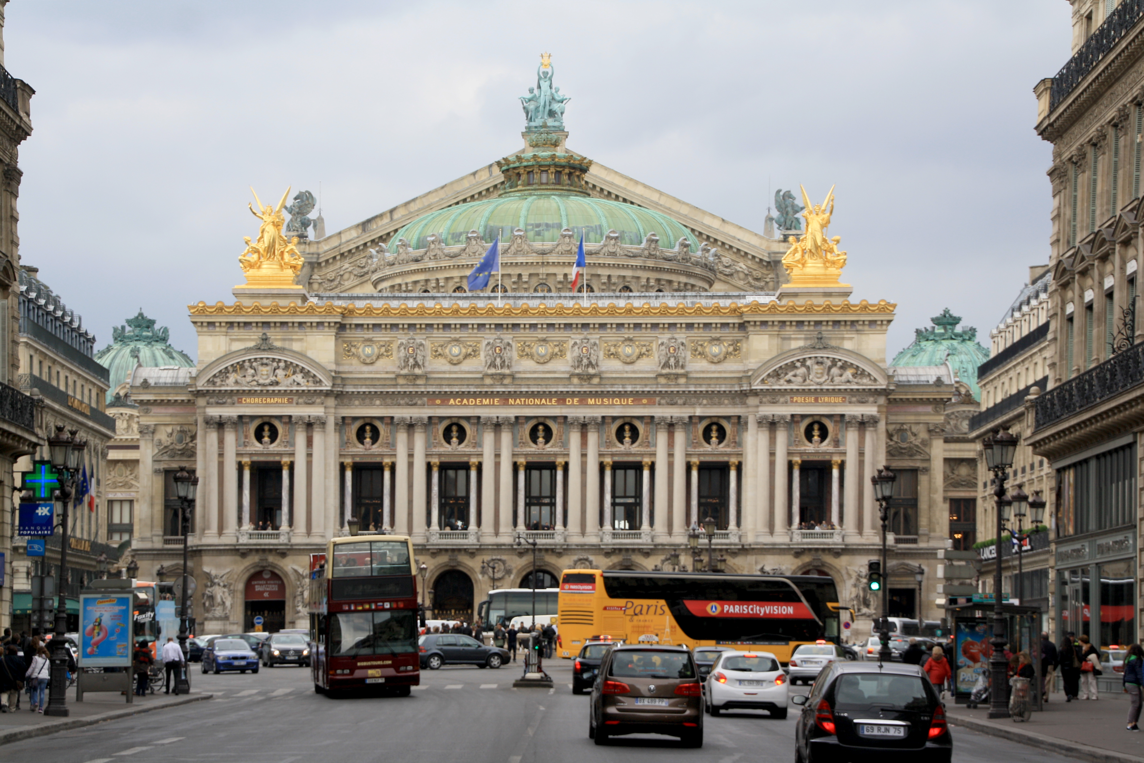 Principal facade of the Opéra Garnier, Paris.